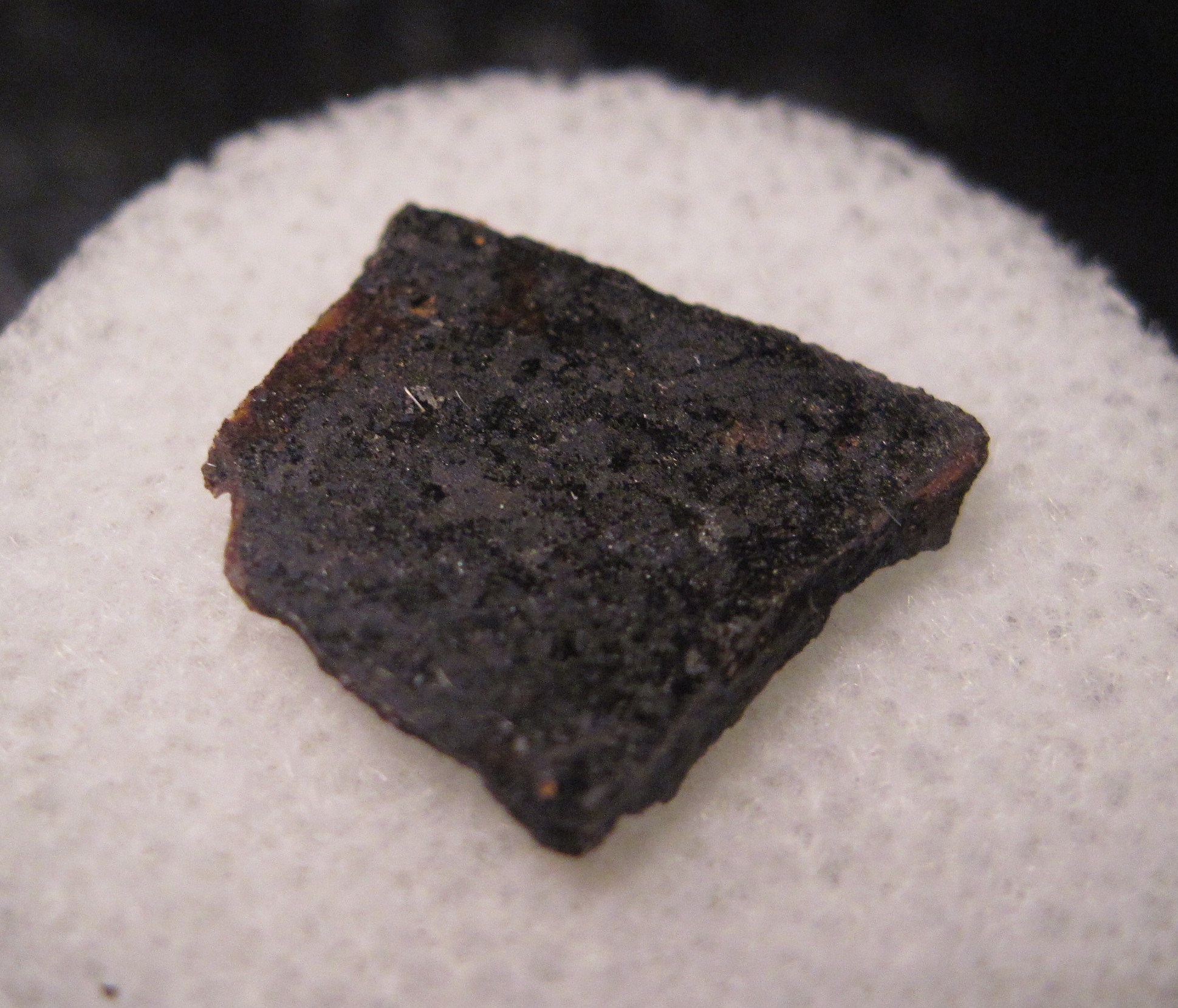 NWA 2999 meteorite, angrite. 0.668 gram partial slice of this very rare achondrite.